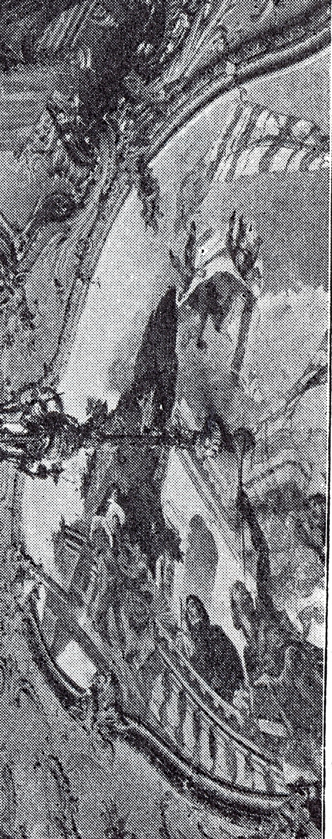 t